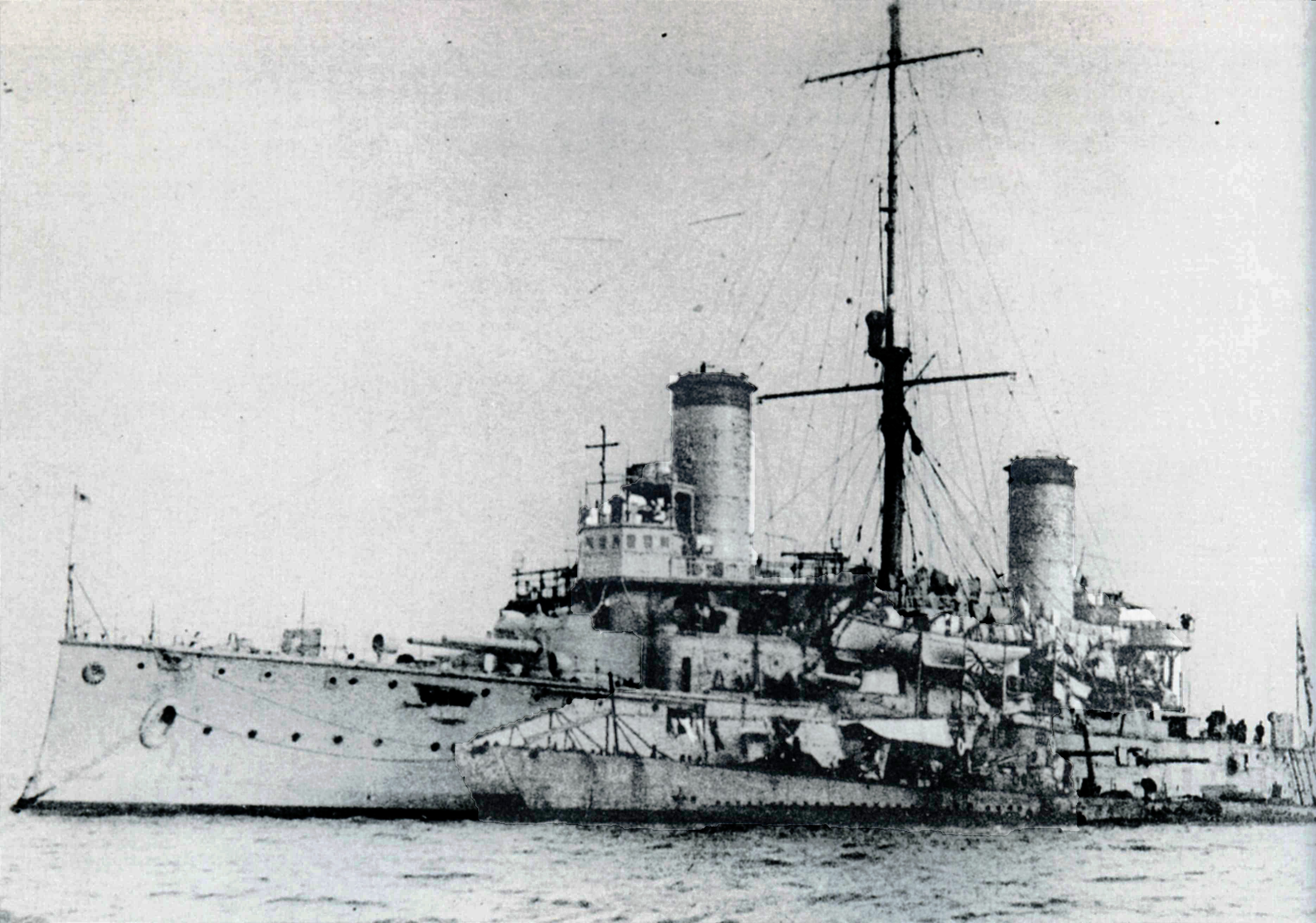 IJN Nissin at Malta with captured German UC-90 U-boat